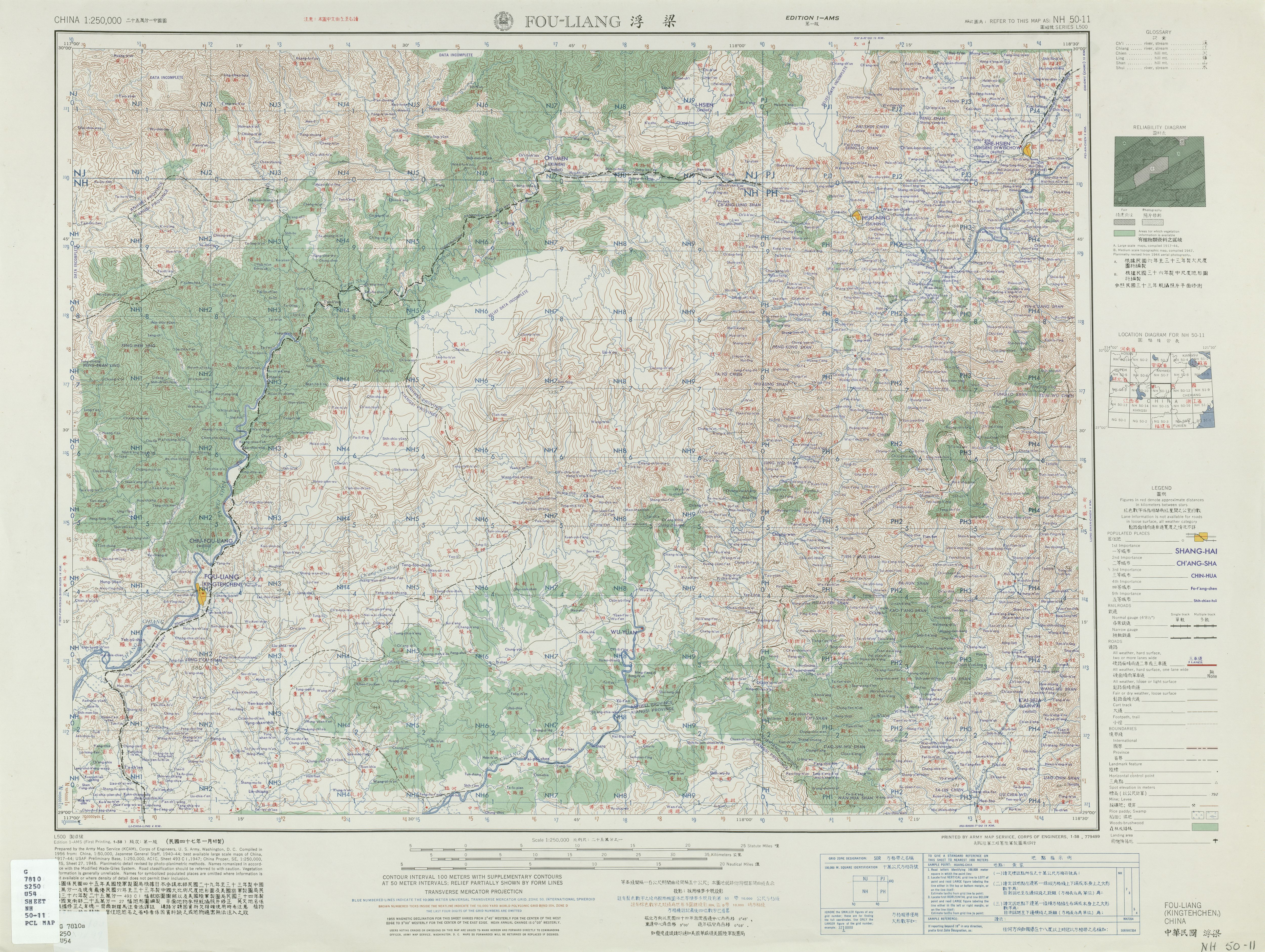 China AMS Topographic Maps series